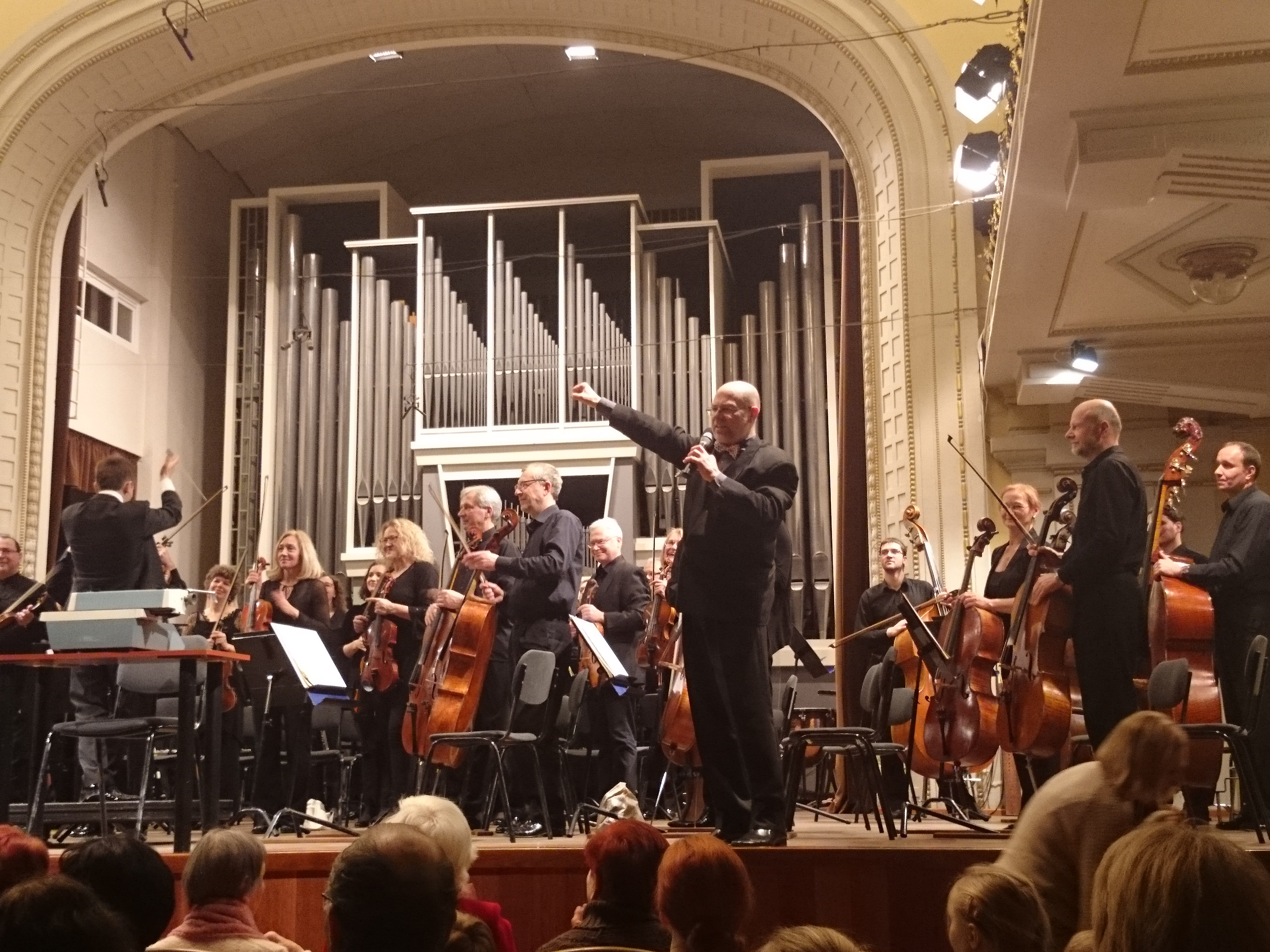 Lithuanian National Philharmony